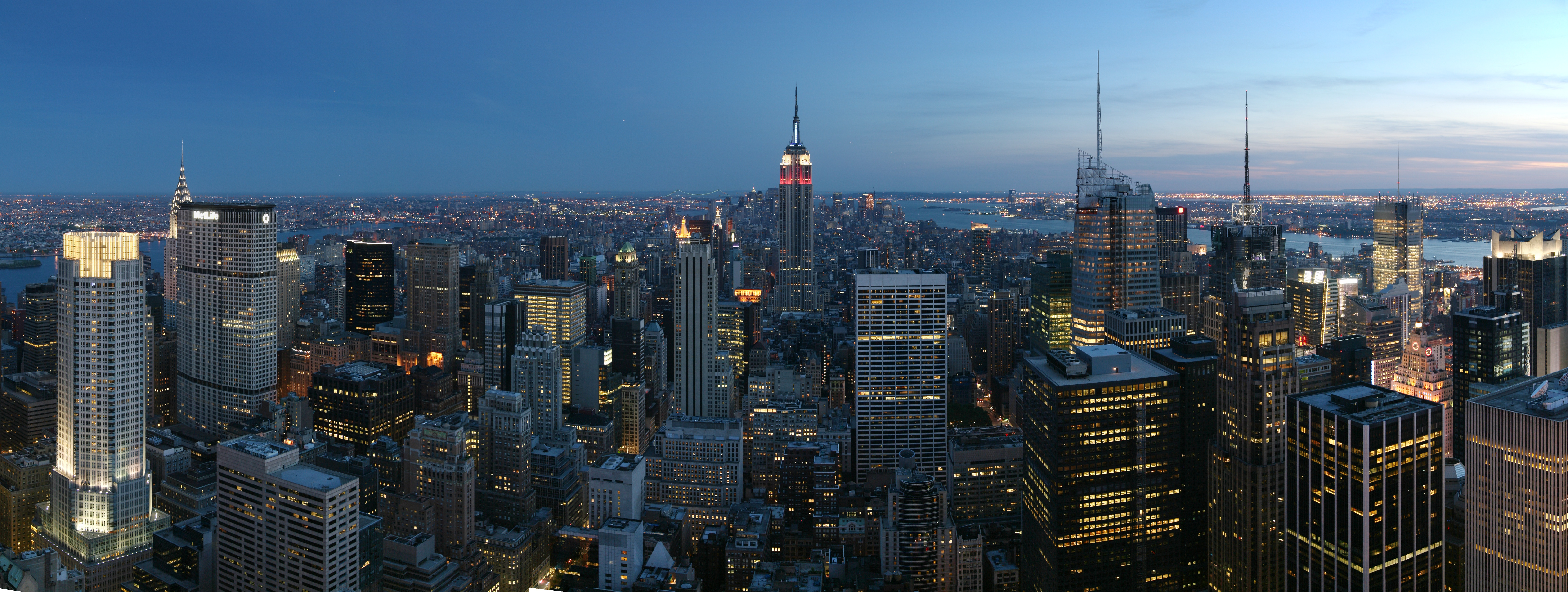 Nighttime view across Midtown and lower Manhattan from Top of the Rock This image was created with Hugin.